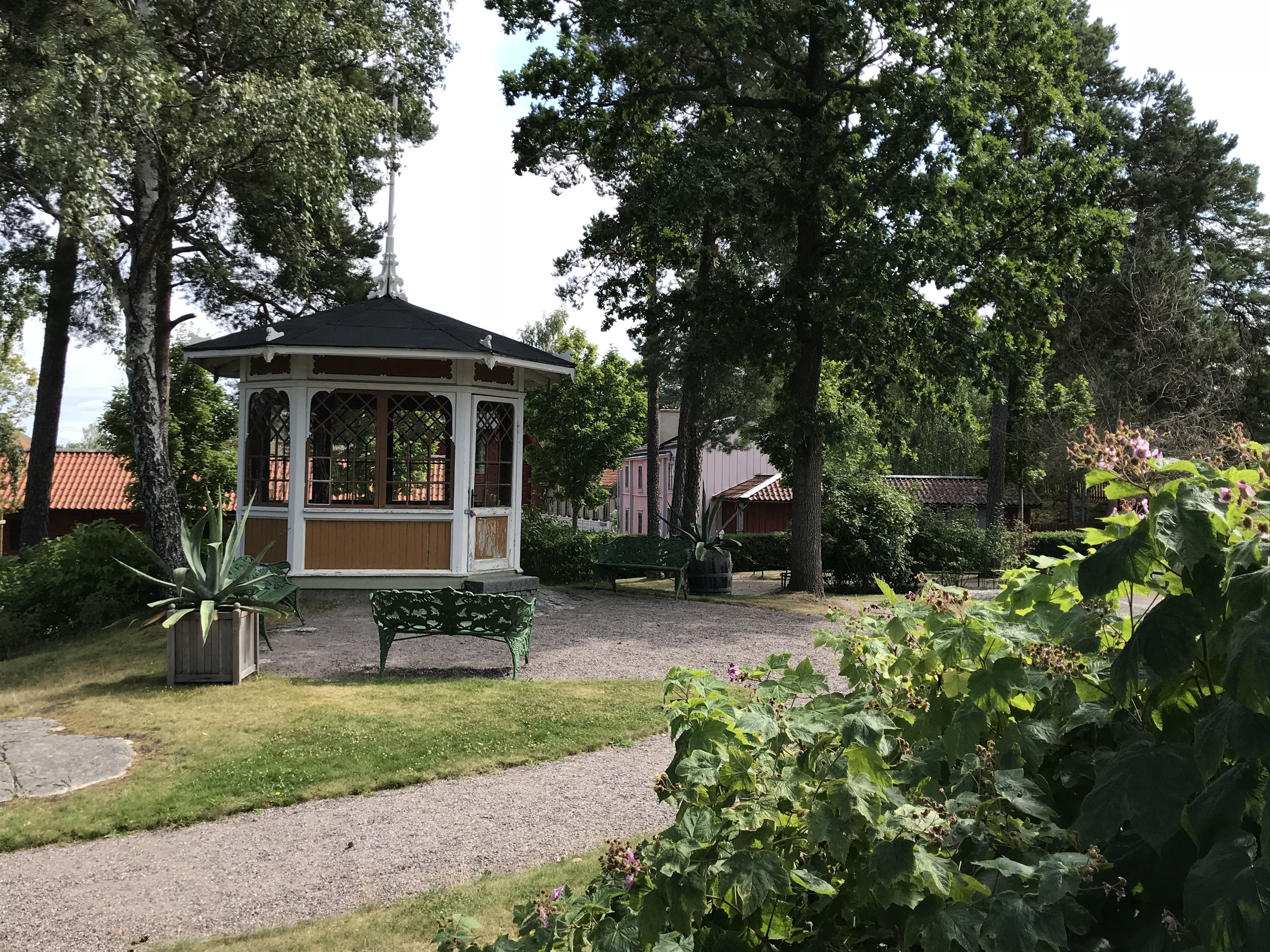 Biborgpavillion at Promenadparken at the Torekällberget open air museum in Södertälje, August 4, 2019.